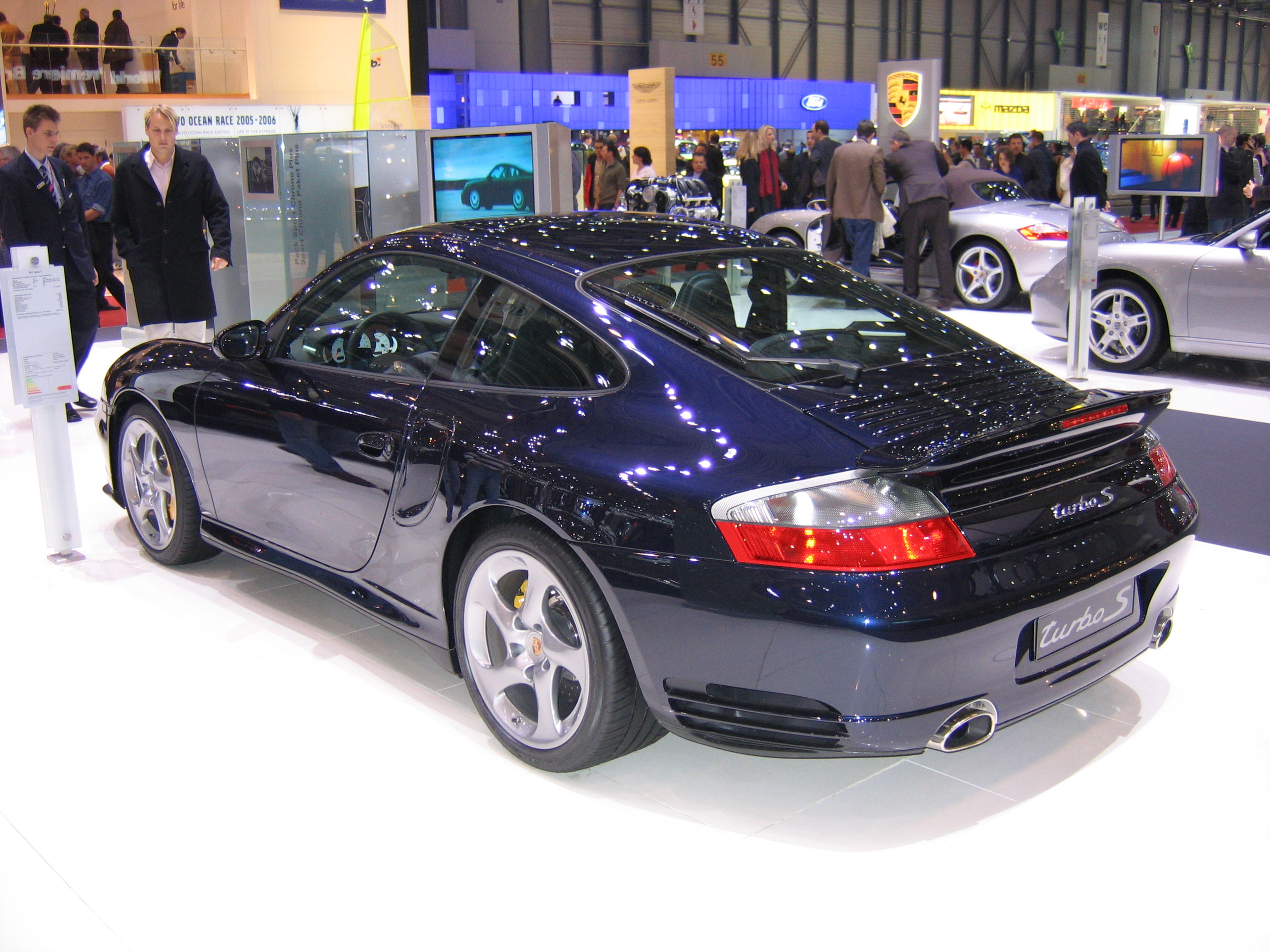 Geneva Motor Show 2005